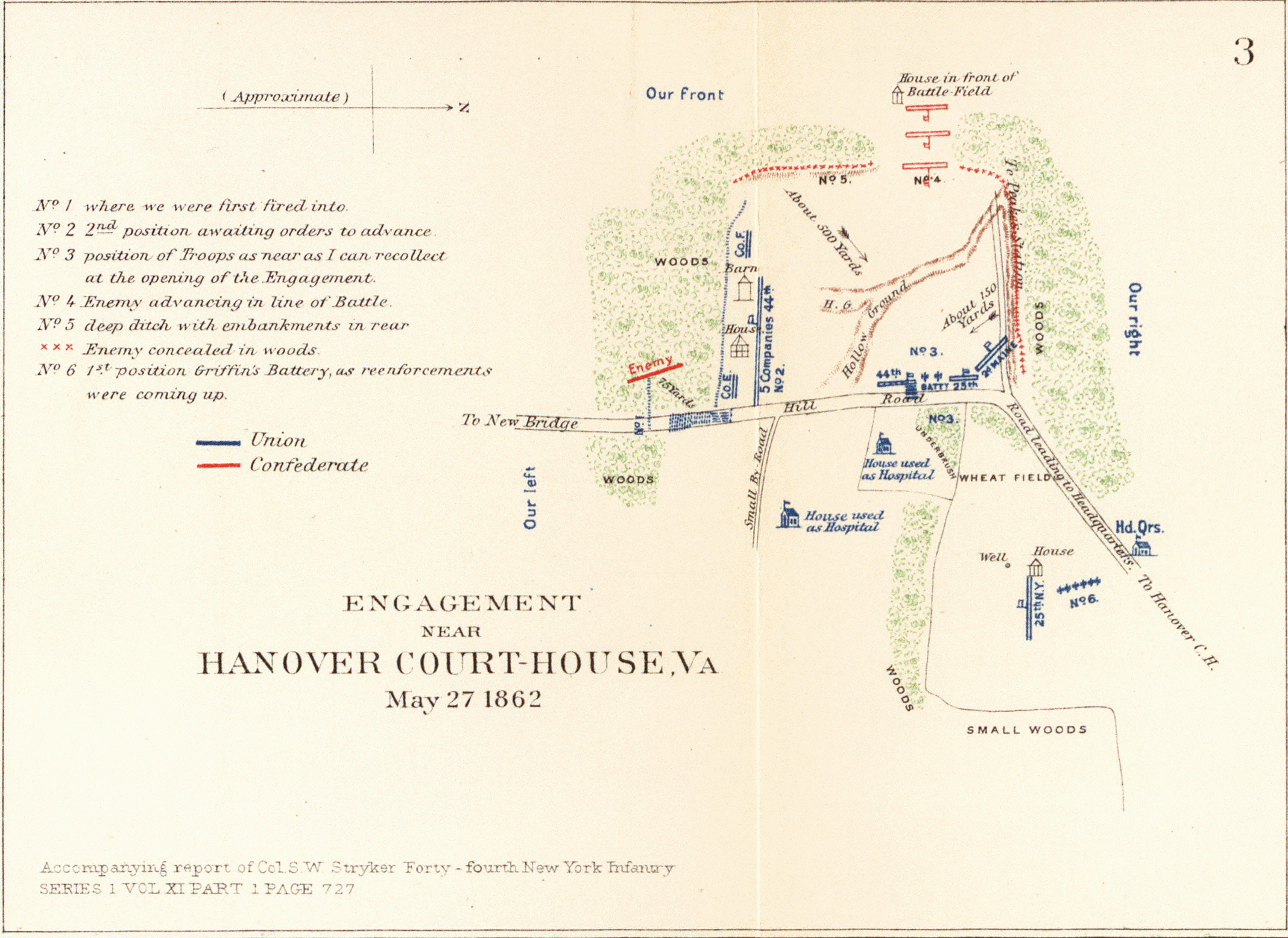 Rough sketch of reconnaissance, May 24th, 1862 (by) R.H. Rush, Col. Lancers. Map illustrating the Battle of Hanover, Va., May 27, 1862. Accompanying report of Brig. Gen. John H. Martindale ... Engagement near Hanover Court-House, Va., May 27, 1862. Accompanying report of Col. S.W. Stryker ... Reconnaissance made on the afternoon of May the 23d, 1862 (by) Alexander Doull ... Map of march from Mount Airey to Old Church, Va., May 23rd 1862 ... accompanying report of Col. R.O. Tyler ... Skirmish between two rebel batteries and Battery B, 1st Md. Arty., June 5th, 1862 at New Bridge, Va. Accompanying report of Captain A. Snow ... Battle of Mechanicsville, Va., June 26 and 27, 1862. Accompanying report of Brig. Gen. T. Seymour ... Sketch of the Battle of New Market, Va., June 30, 1862 ... Map to accompany the report of Brig. Gen. J.E.B. Stuart ... commanding Pamunkey Expedition to the enemy's rear, June 13, 14 and 15, 1862 ... Malvern Hill, Va., Morrell's Division, July 1st, 1862. Engagement near Hanover Court-House, Va., May 27, 1862. Accompanying report of Brig. Gen. D. Butterfield ... Topography of the battle-field of Cross Keys, Va. by Lieut. Col. John Pilsen ... Accompanying report of Maj. Gen. J.C. Fremont ... Map of route and positions, First Corps, Army of Virginia, Major General Sigel, commanding from July 7th to Sept. 10th 1862 (by) Franz Kappner, Maj. and Chf. Engr. Julius Bien & Co., Lith., N.Y. (1891-1895)